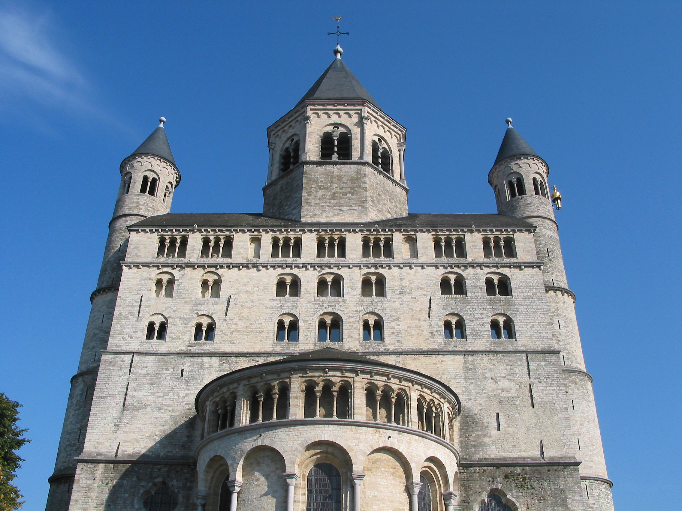 Nivelles (Belgium), the St. Gertrude Collegiate (XI/XIIIth century) and her restored fore-part (XXth century). Walon: Nivèle (Bèljike), li coléjiale Sint Djèrtrûde (XI/XIIIin.me sièkes èt si avant-cwârps rimètu a noû au (XXin.me sièke).